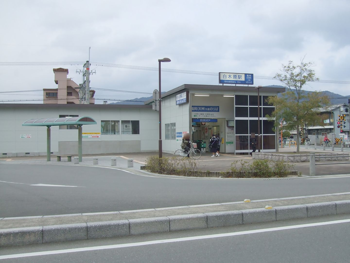 Nishitetsu Shirakibaru Station(westside entrance), Nishitetsu Tenjin Omuta Line.